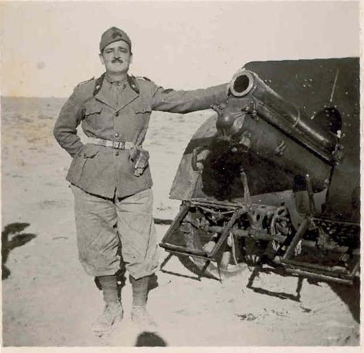 My grandfather next to a gun in Libya (Italian Royal Army)